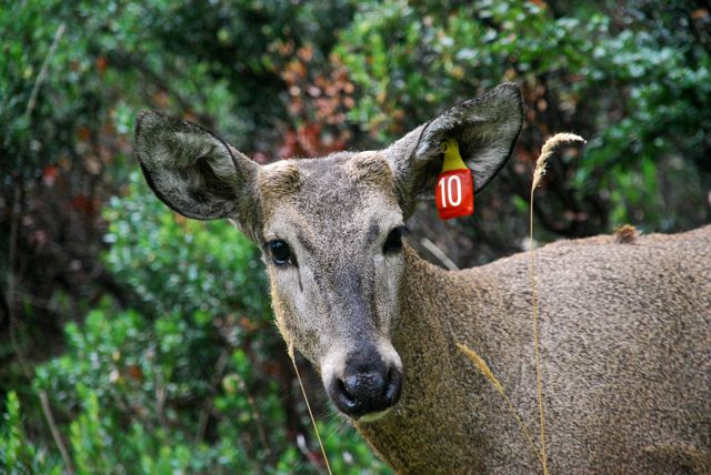 Endangered humeul or south Andean deer (Hippocamelus bisulcus)